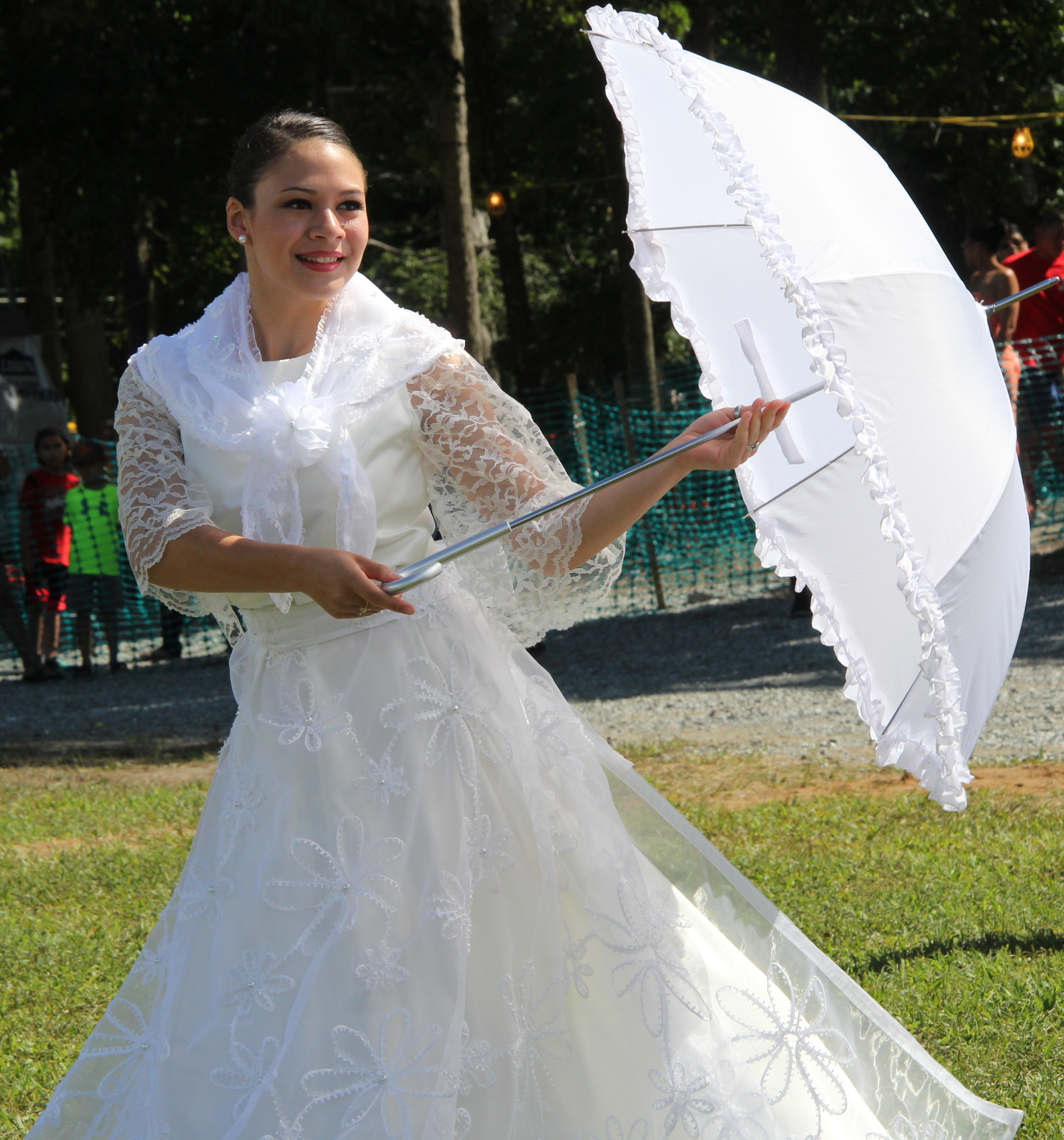 Now in its tenth year, the Filipino Festival is a community event which showcases the richness of the Filipino culture and promotes a respect for and appreciation of the Filipino heritage. Featuring a delectable cuisine, folk dances and music, the Filipino Festival has attracted thousands of attendees from Richmond and surrounding cities and counties who want to experience the best of the Philippine islands without leaving Virginia. 2015 Richmond Filipino Festival